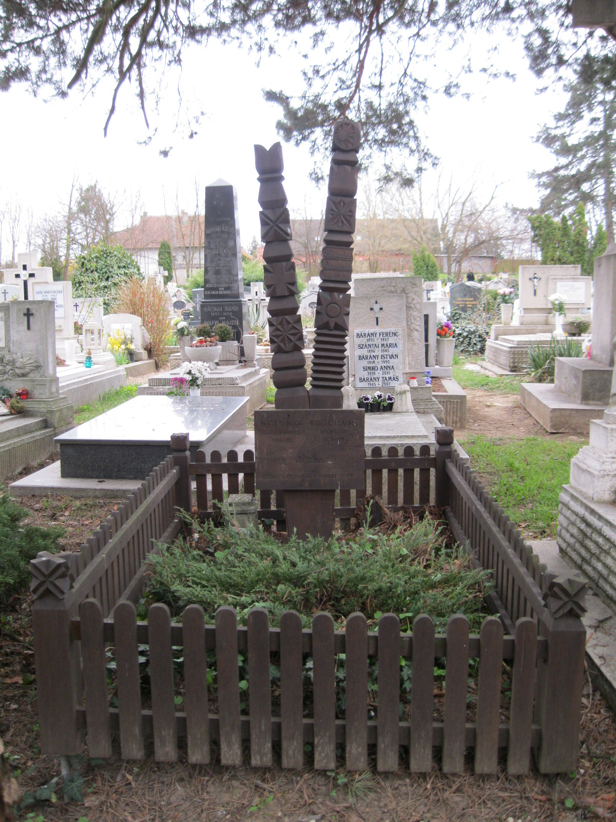 Sándor Nagy (painter) and Laura Kriesch tomb in Gödöllő Urban Cemetery. Sculptor: Aladár Ambrus, 2010.